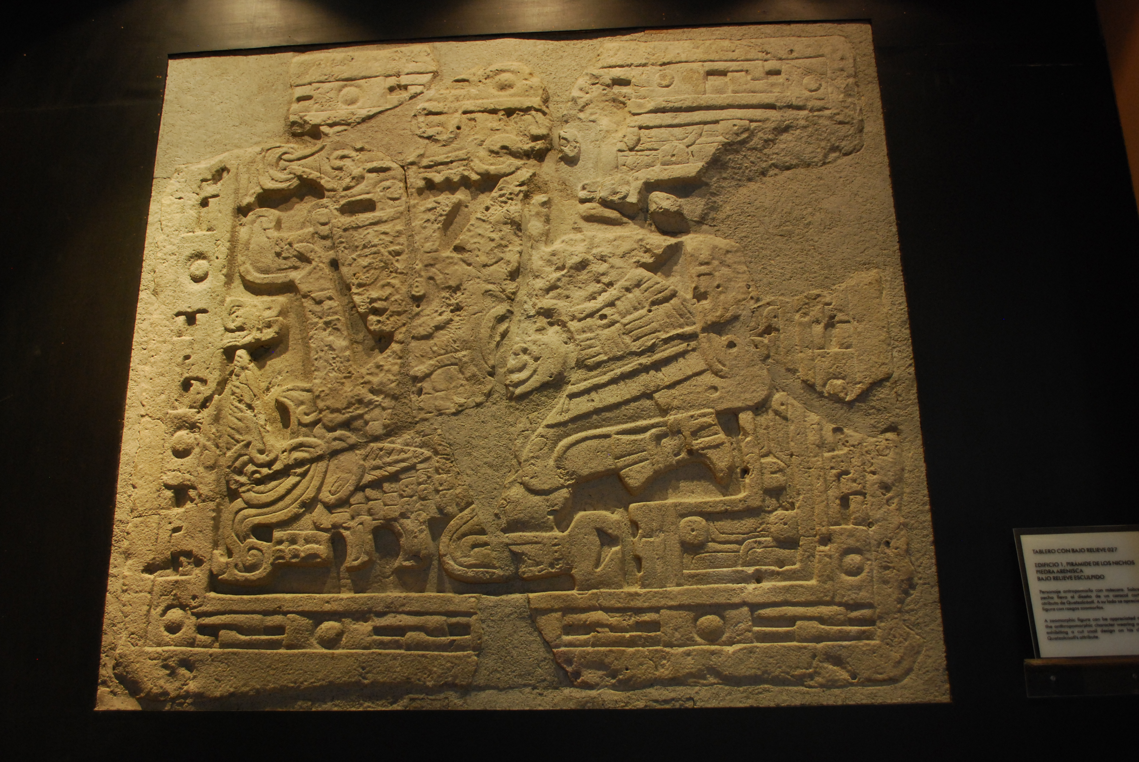 Stone tablet 27 from the Pyramid of the Niches A zoomorphic figure with an anthropomorphic figure. On display at the Tajin site museum, Veracruz, Mexico